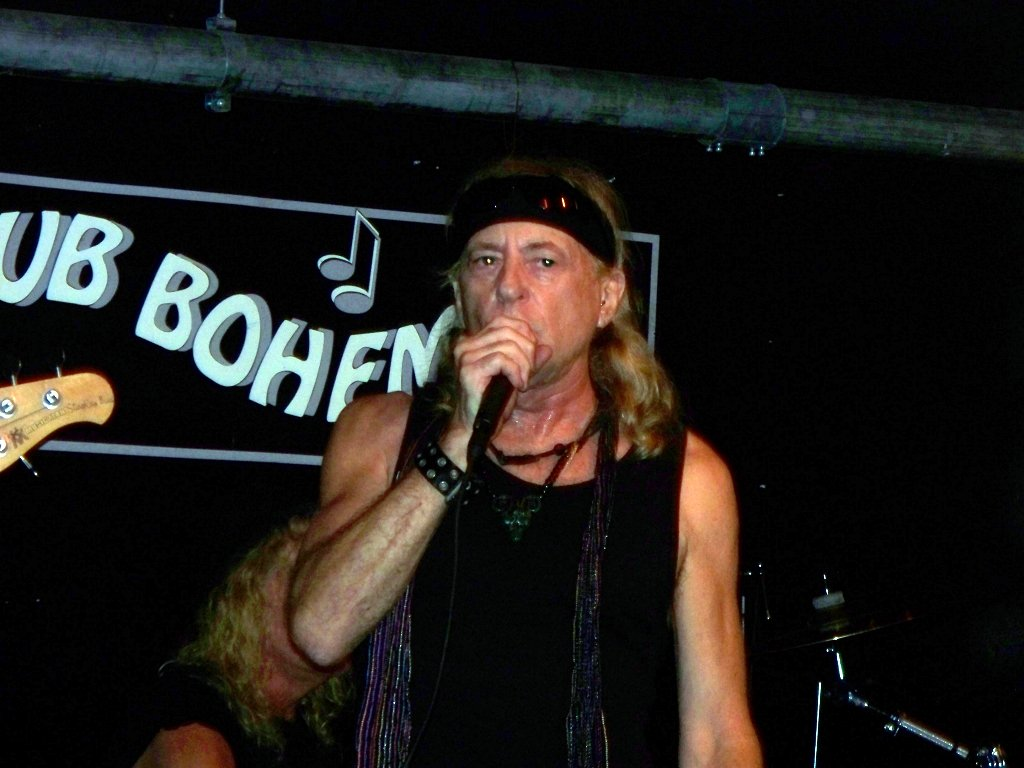 Ian Lloyd (of Ian Lloyd and the Stories) performing at the Cantab In Cambridge, Mass. on Sept. 10, 2011.